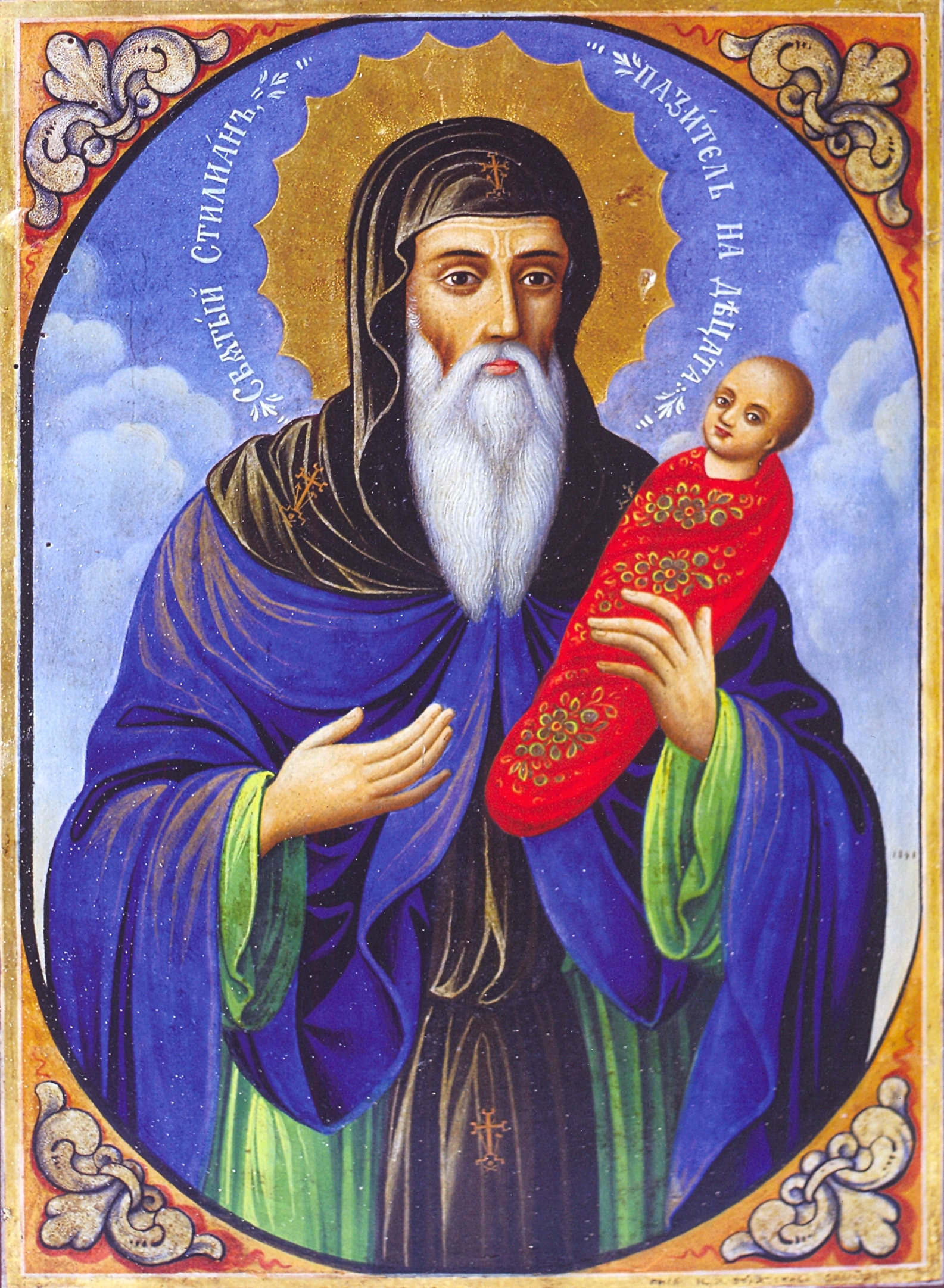 Icon "St. Stilian, Guardian of children" 40/28 cm